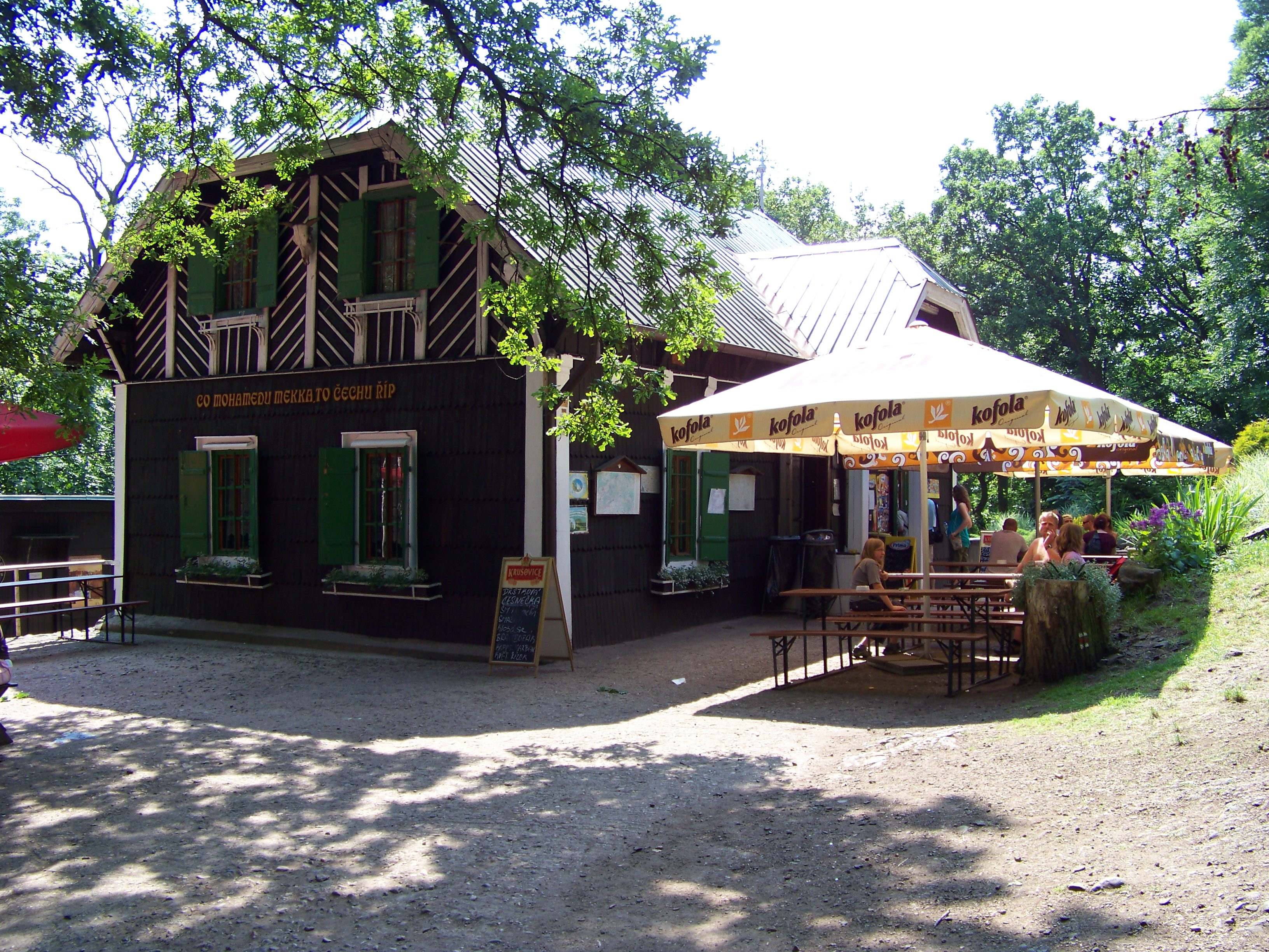 Mnetěš, Litoměřice District, Ústí nad Labem Region, the Czech Republic. Říp Mountain, a hut with a pub near the summit.